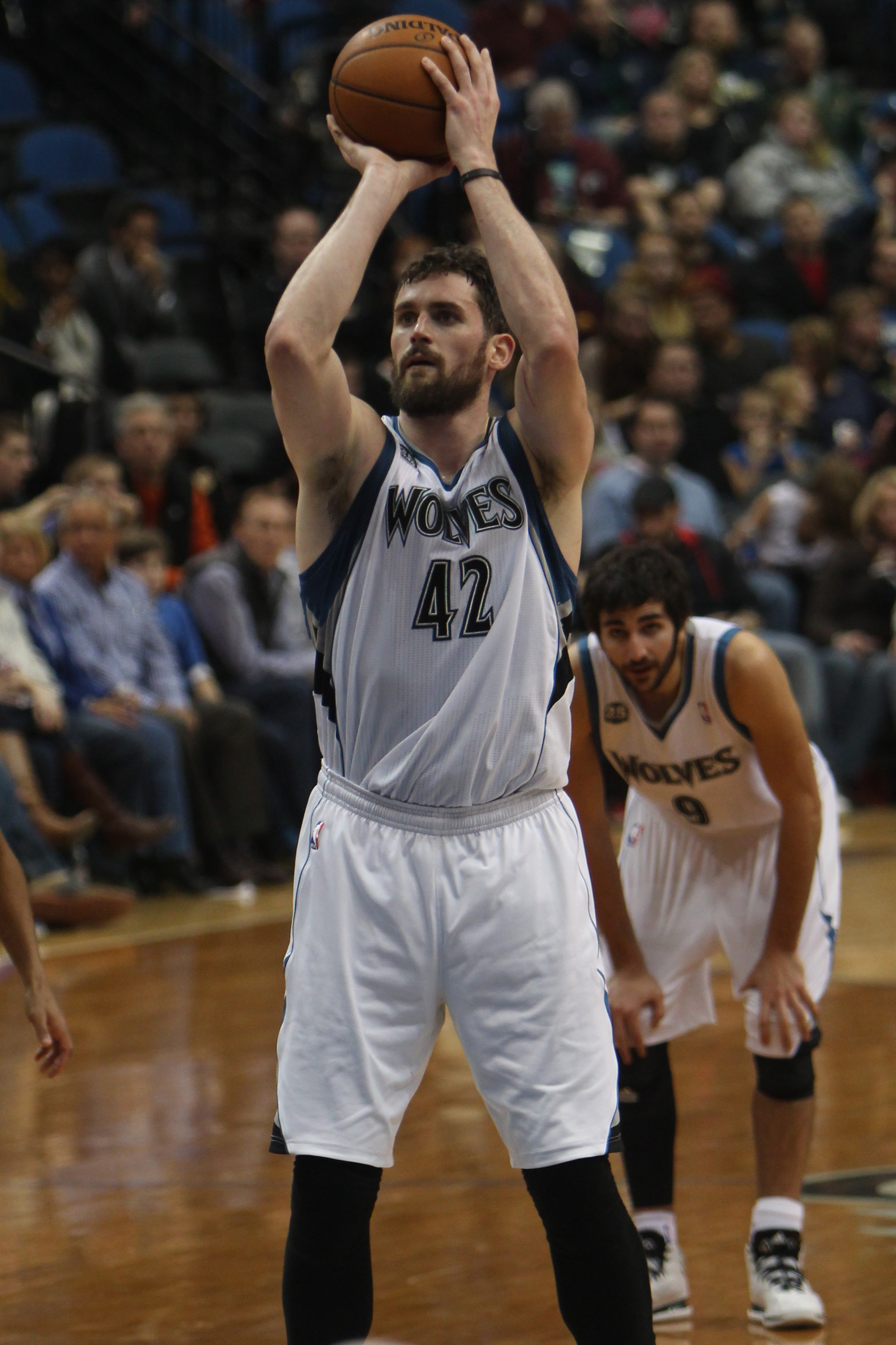 Kevin Love